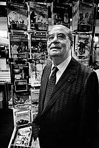 Dargaud